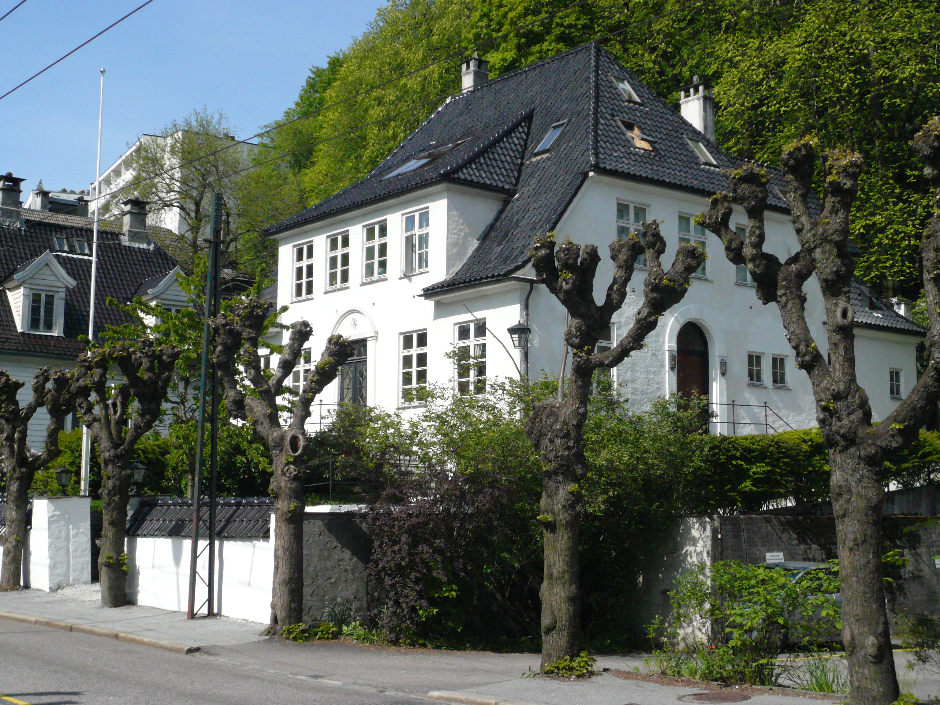 Amelnhuset, Kalfarveien 10, Bergen, Norway (1914). Architect Ole Landmark, house for Haakon Ameln.